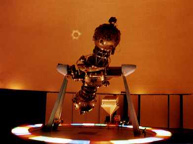 Kiev Planetarium interior with Zeiss-IV projector